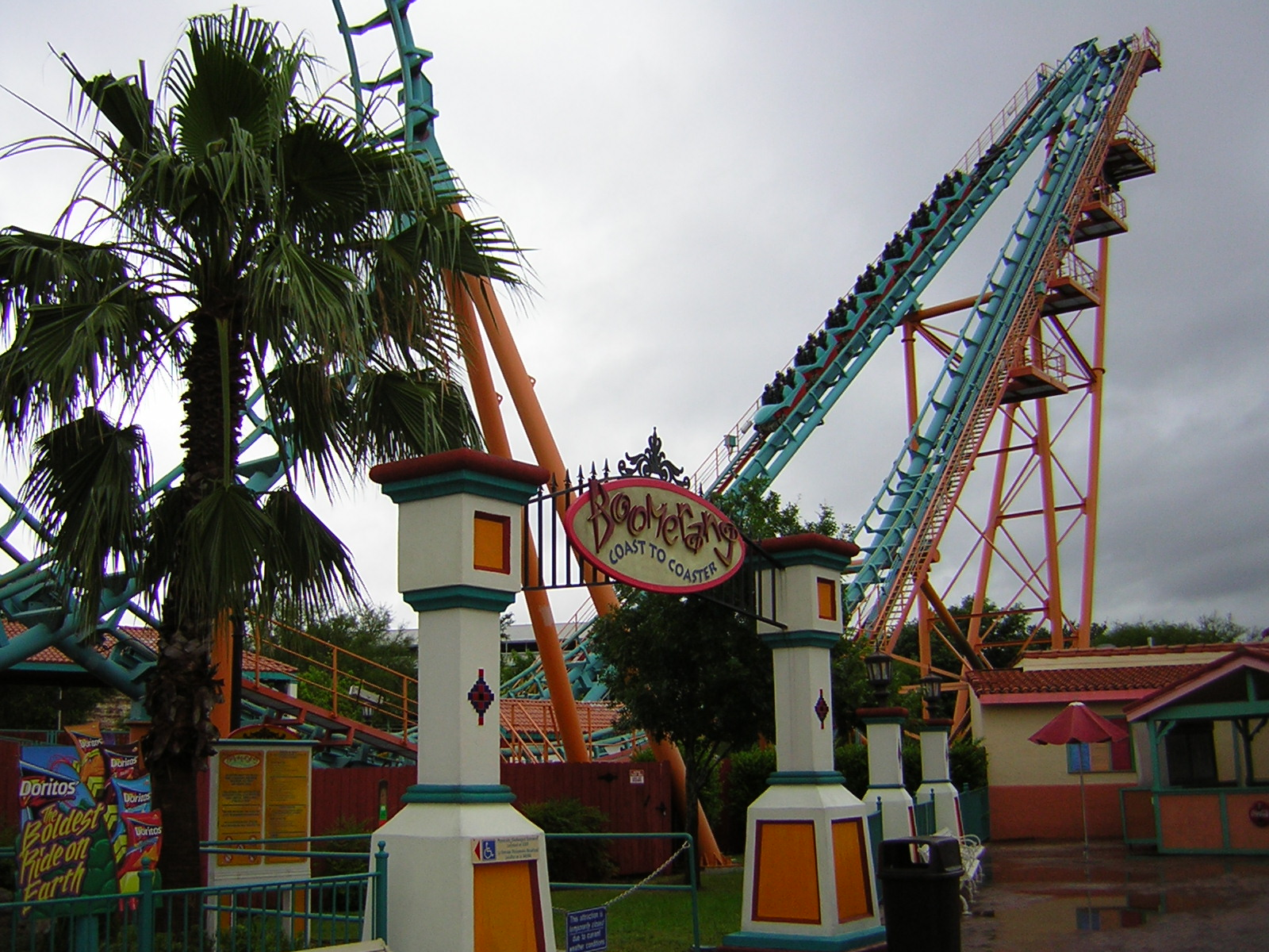 Boomerang: Coaster to Coaster, a standard Vekoma Boomerang roller coaster at Six Flags Fiesta TexasBoomerang